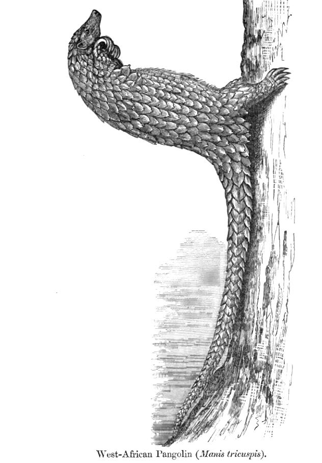 Manis tricuspis, African Pangolin